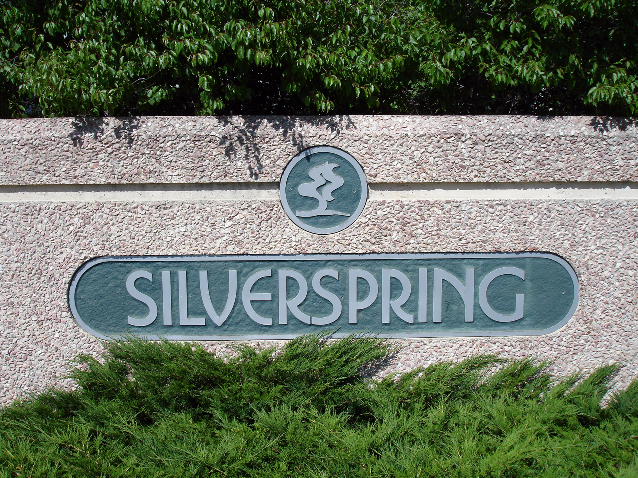 Sign denoting the entrance to the Silverspring subdivision in Saskatoon, Saskatchewan, Canada.